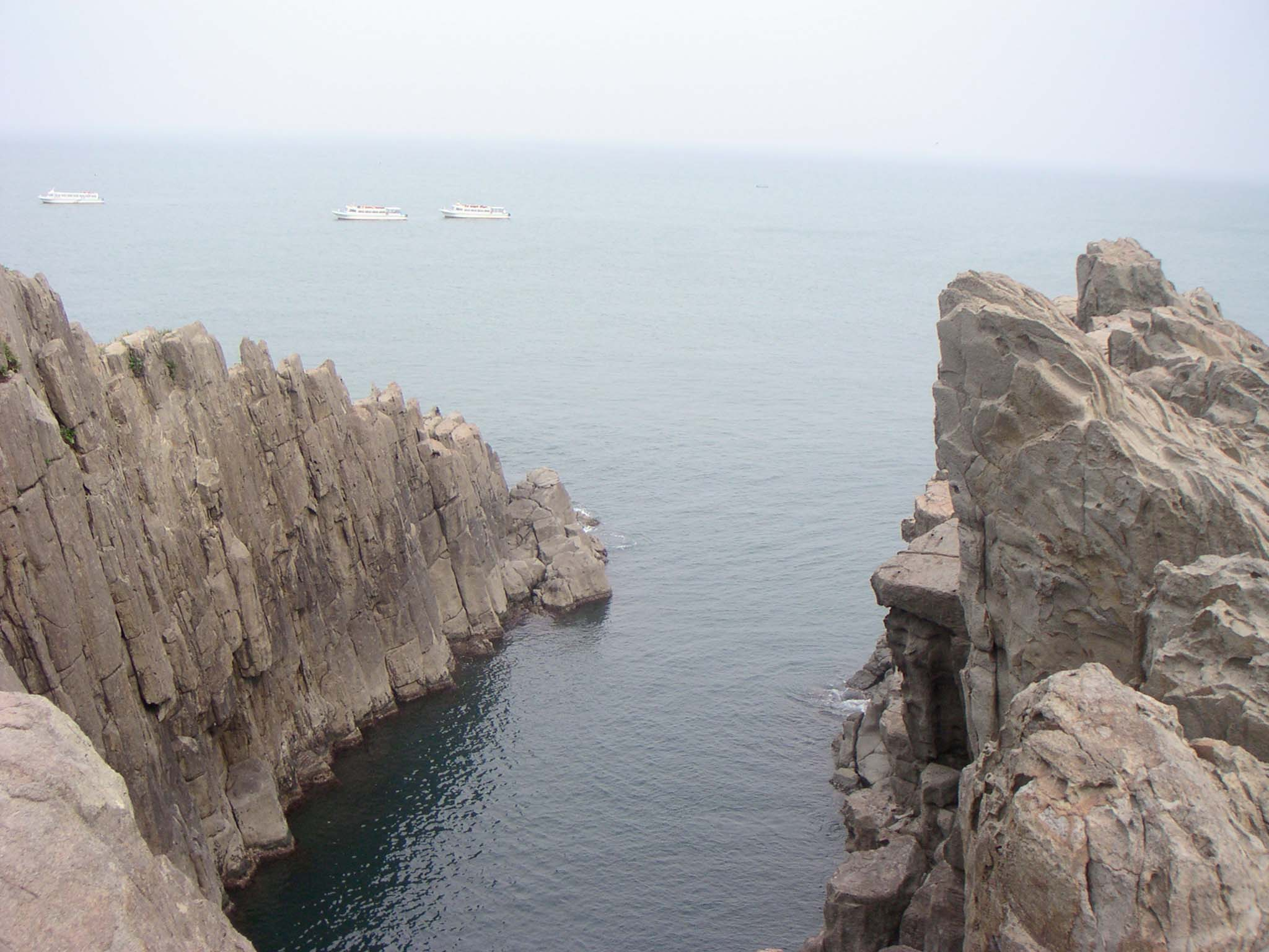 Tojimbo Ooike in Fukui Prefecture, Japan